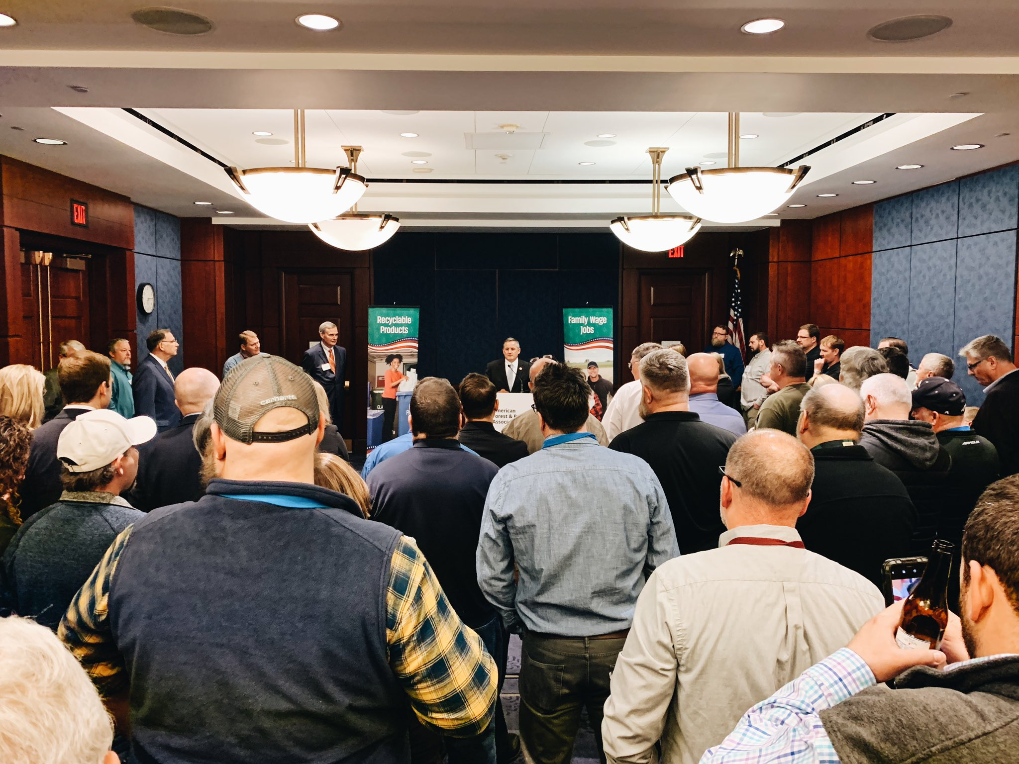 Great to speak with @ForestandPaper tonight about the importance of wood products. Trees are the ultimate renewable resource, and I’m grateful for all that AF&PA does for the industry.